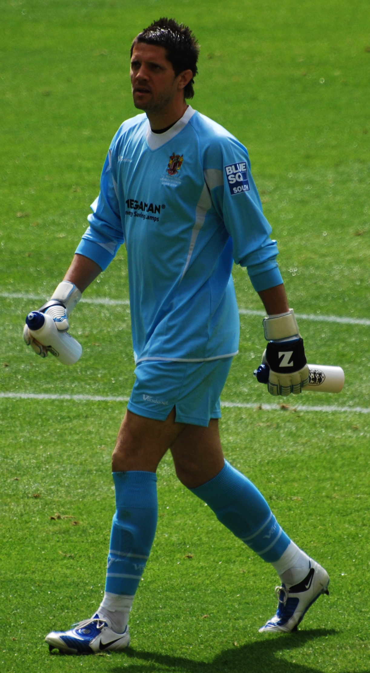 Chris Day. Image cropped from original at flickr.